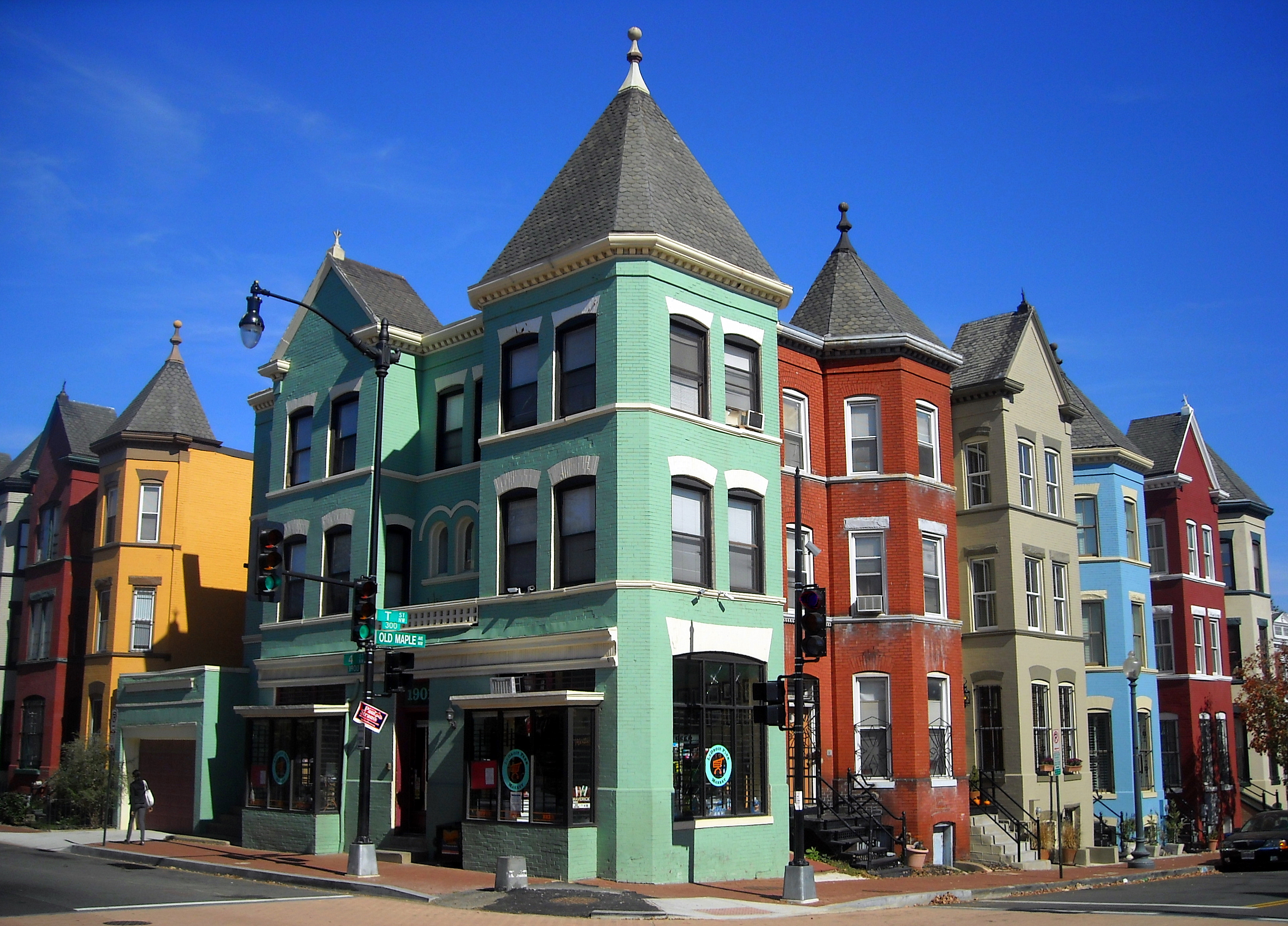 Intersection of 4th & T Streets, NW in the LeDroit Park neighborhood of Washington The neighborhood is listed on the National Register of Historic Places.